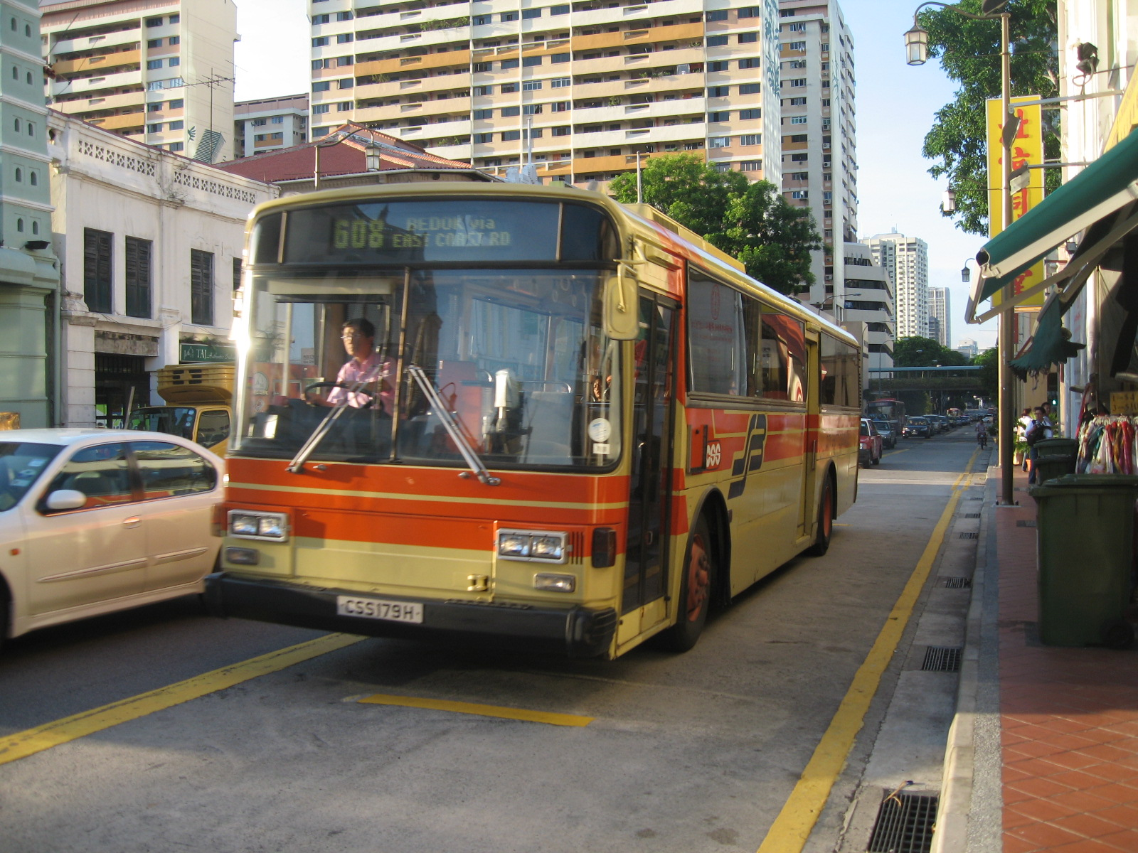 City Shuttle Service (SMRT) Nissan Diesel U31RCN. Taken by Terence Ong in May 2006.